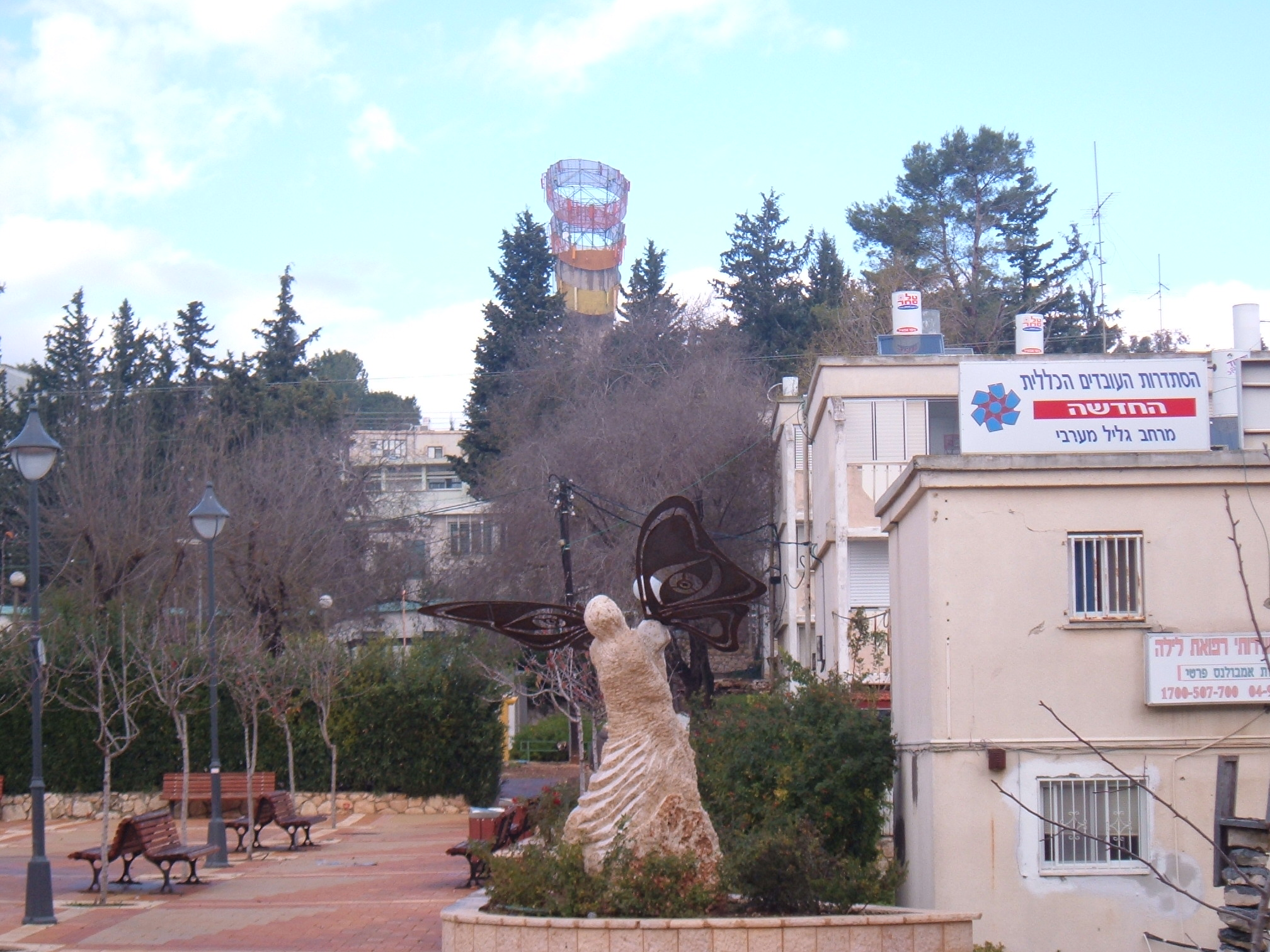 a square in Maalot, Israelכיכר במרכז העיר מעלות, מול בניין העיריה. ברקע מגדל המים המעוטר הצופה על העיר מעלות.